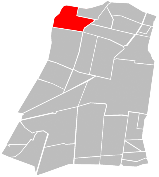 Map of Delegación Cuauhtémoc in Mexico City, with Colonia Atlampa highlighted in red